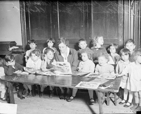 Ruth Hanna McCormick (U. S. congress woman) sitting with a group of children at a table covered with books in a room.